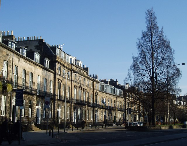 Coates Crescent, Edinburgh. One of the newer parts of Edinburgh's New Town. Building started in 1813. Coates Crescent and its twin directly opposite, Atholl Crescent, are separated by the main Edinburgh-Glasgow road.